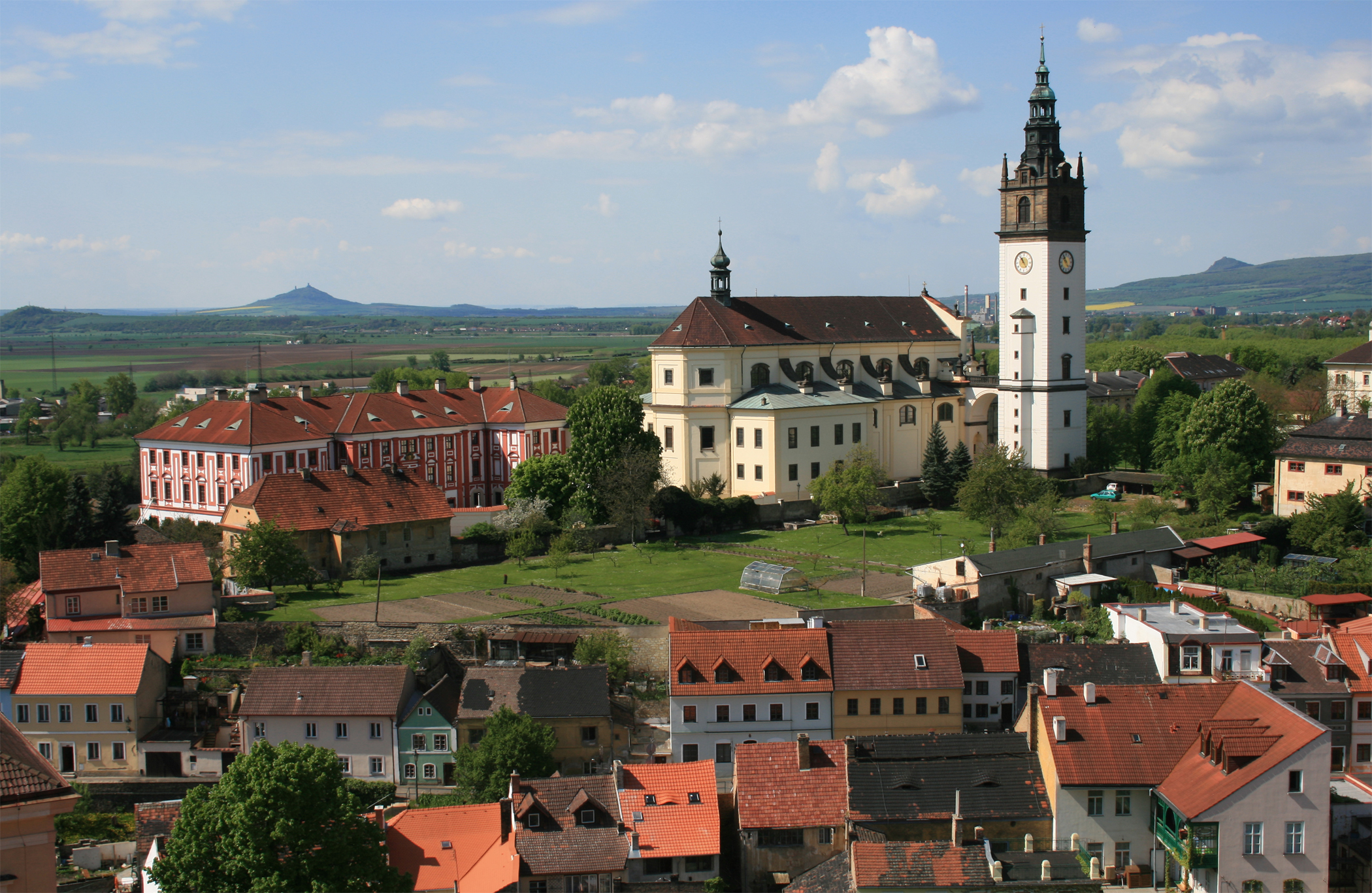 Cathedral of St. Stephen with belfry in Litoměřice, Czech Republic. A view from The Chalice House in the southwest direction. Hazmburk Castle is visible on the left horizon, less than 14 km away.